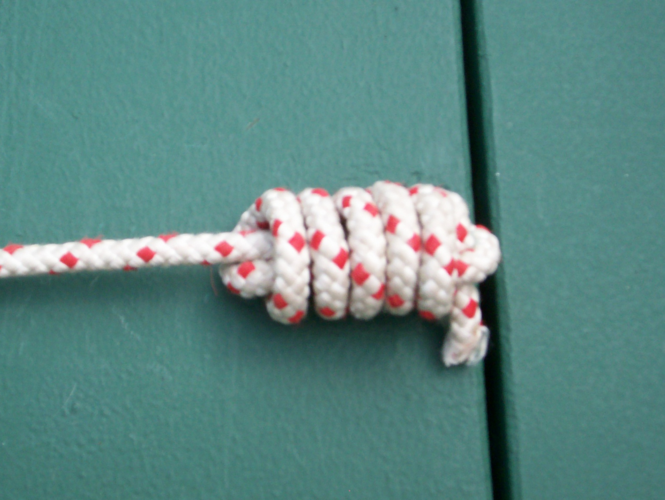 A finished heaving line knot. The last step is to tighten the knot by pulling on the standing part.